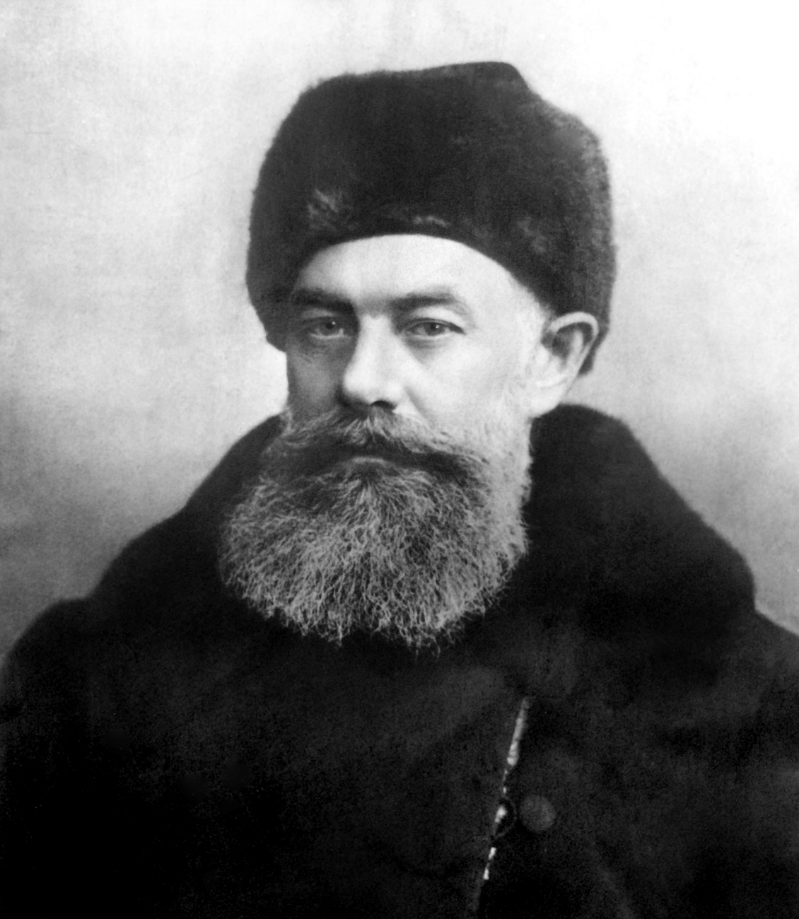 Vasily Dokuchaev, Russia